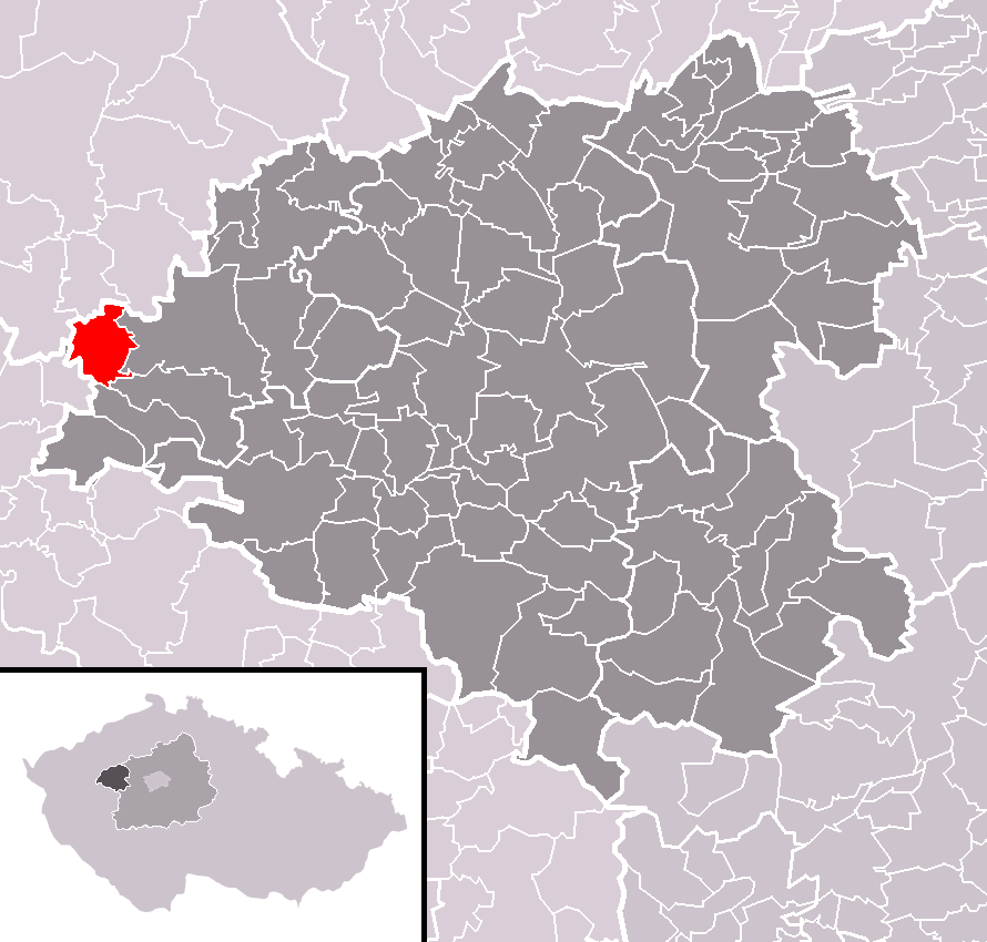 Location of Krty municipality within Rakovník District and (identical) administrative area of Rakovník as a Municipality with Extended Competence.